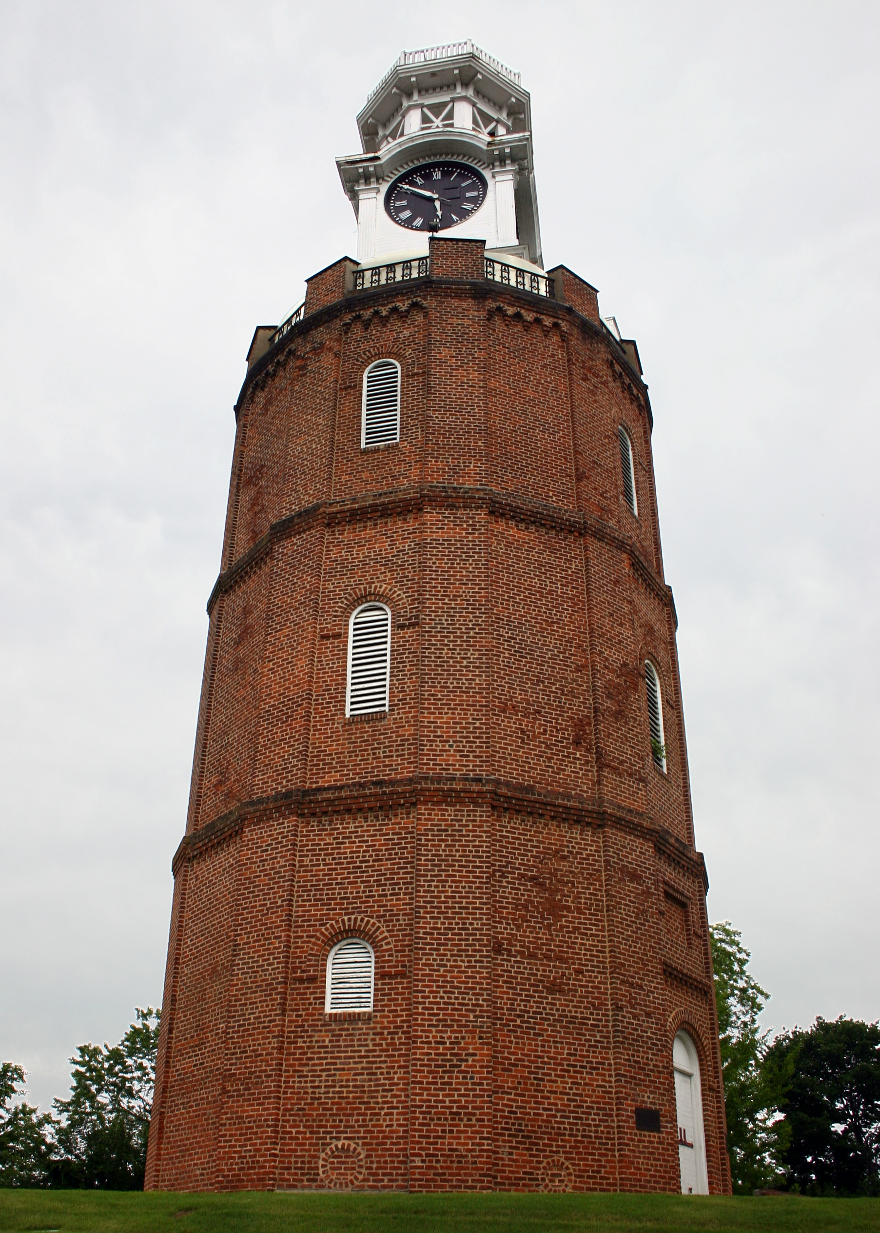 Rome Georgia Historic Clocktower